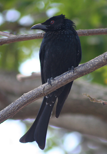 Spangled Drongo (Dicrurus bracteatus). Photographed in Carins, QLD, Australia.